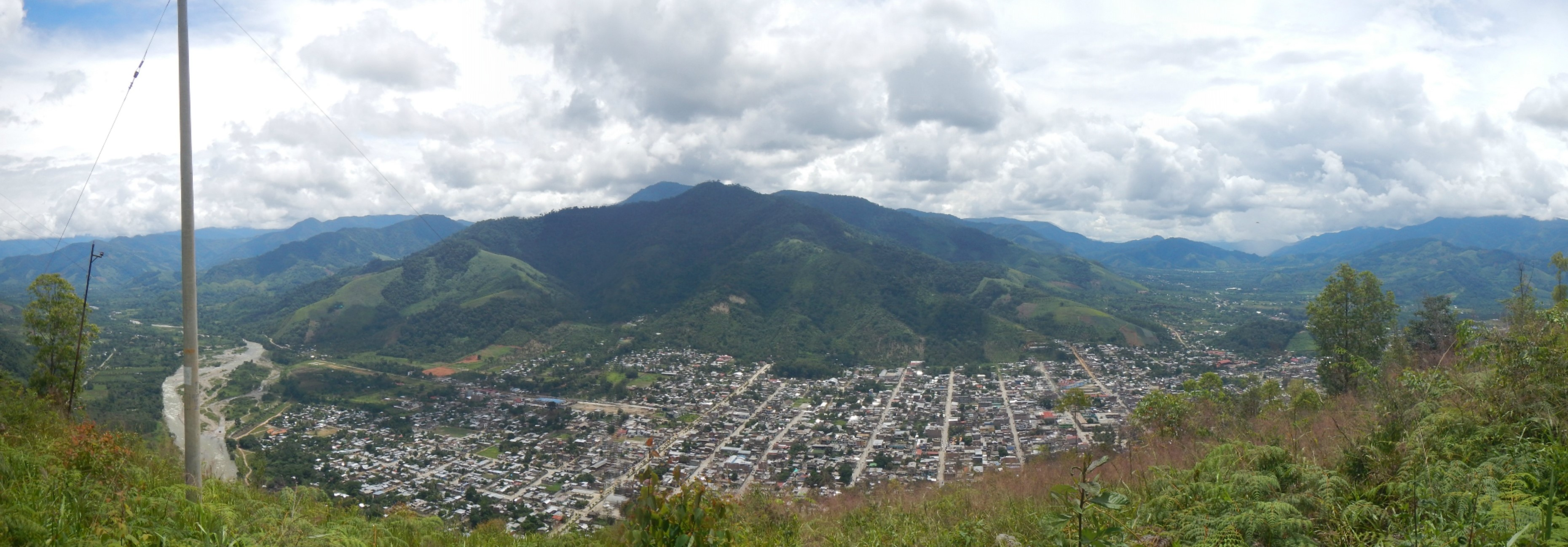 An aerial photo of Satipo City taken from the perspective of the local radio station.